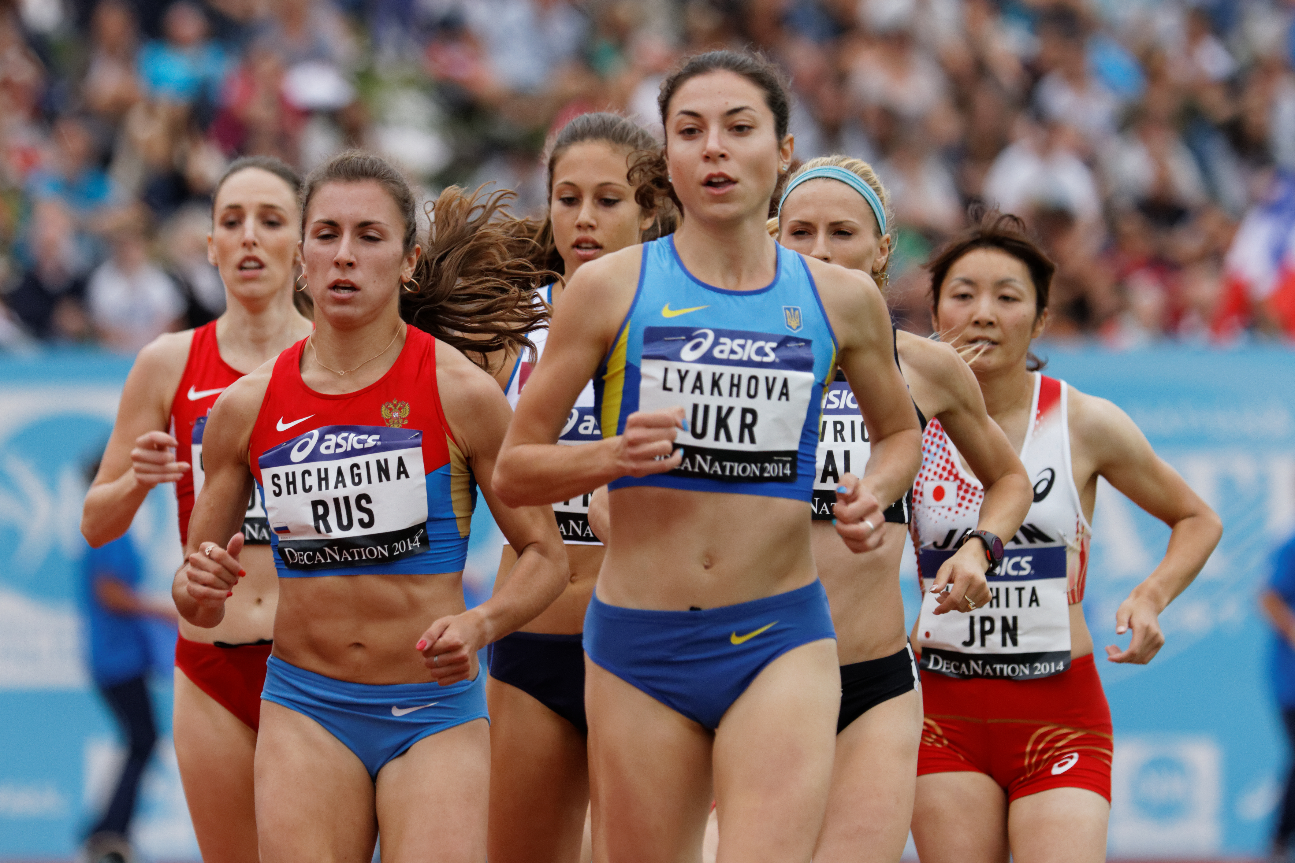 DécaNation 2014 800m. Olha Lyakhova et Anna Shchagina.